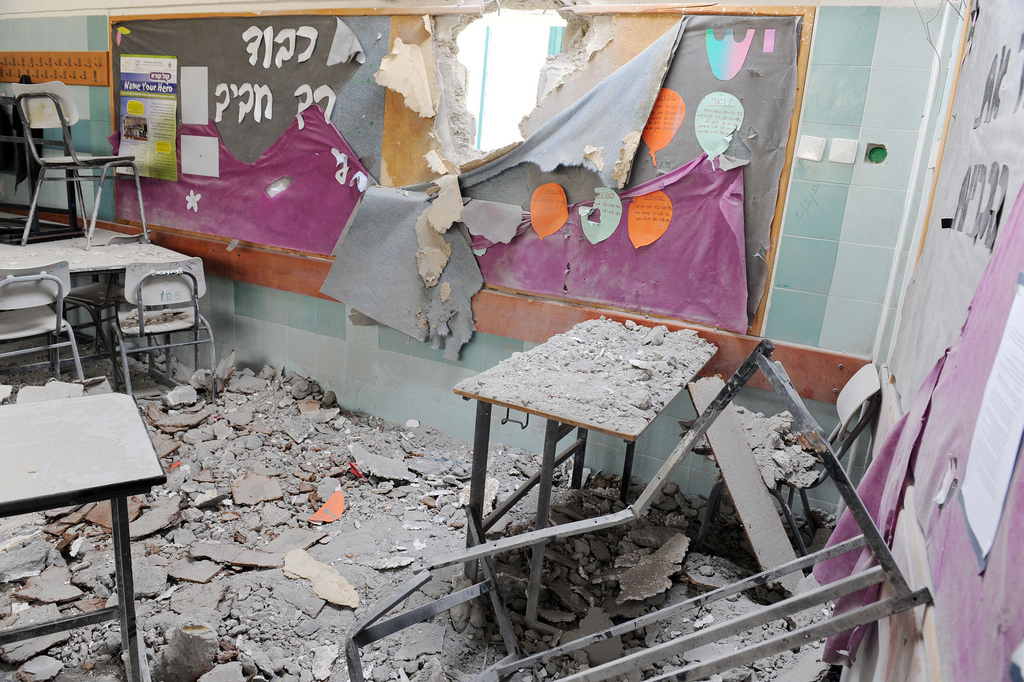 Grad rocket fired from Gaza hits Southern Israeli city of Beer Sheva and destroys a kindergarten classroom